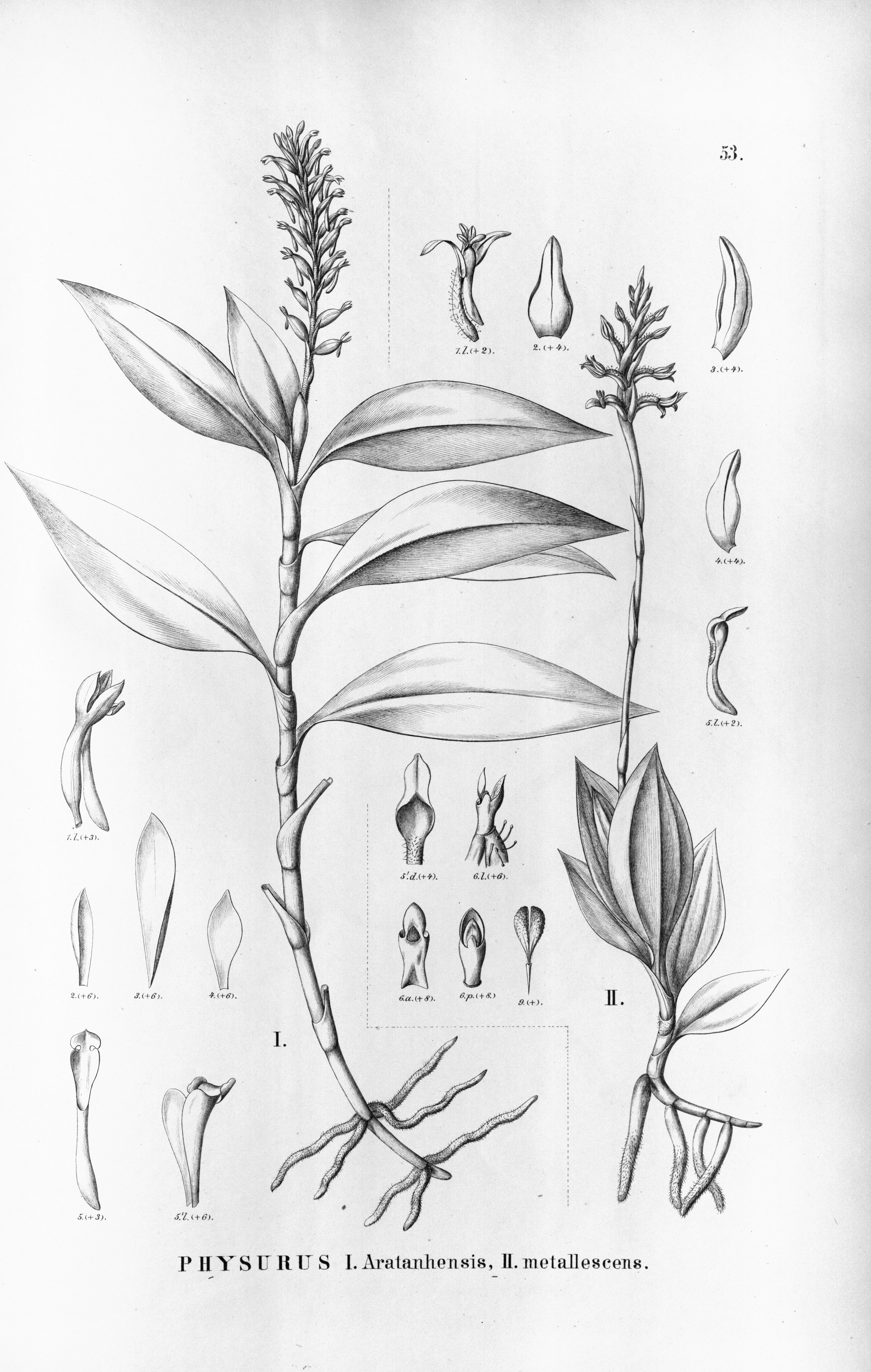 Illustration of: I. Aspidogyne foliosa (as syn. Physurus aratanhensis) II. Aspidogyne metallescens (as syn. Physurus metallescens)